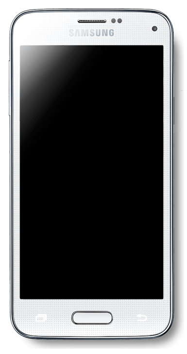 Samsung Galaxy S5 mini render